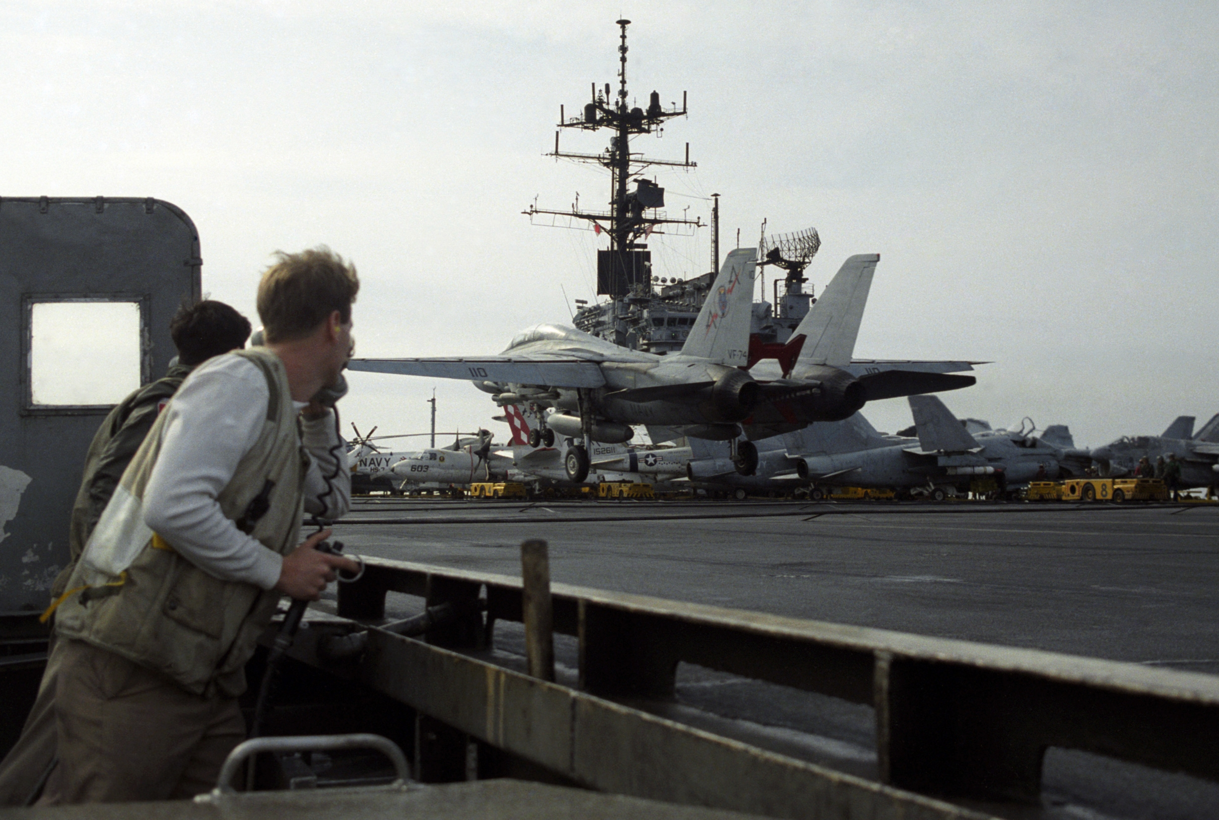 A U.S. Navy Grumman F-14A Tomcat from fighter squadron VF-74 Be-Devilers landing aboard the aircraft carrier USS Saratoga (CV-60) on 22 March 1986. VF-74 was assigned to Carrier Air Wing 17 (CVW-17) aboard the Saratoga for a deployment to the Mediterranean Sea from 16 August 1985 to 16 April 1986. On 15 April 1986 Saratoga´s aircraft participated in "Operation El Dorado Canyon", the bombing of Libya.